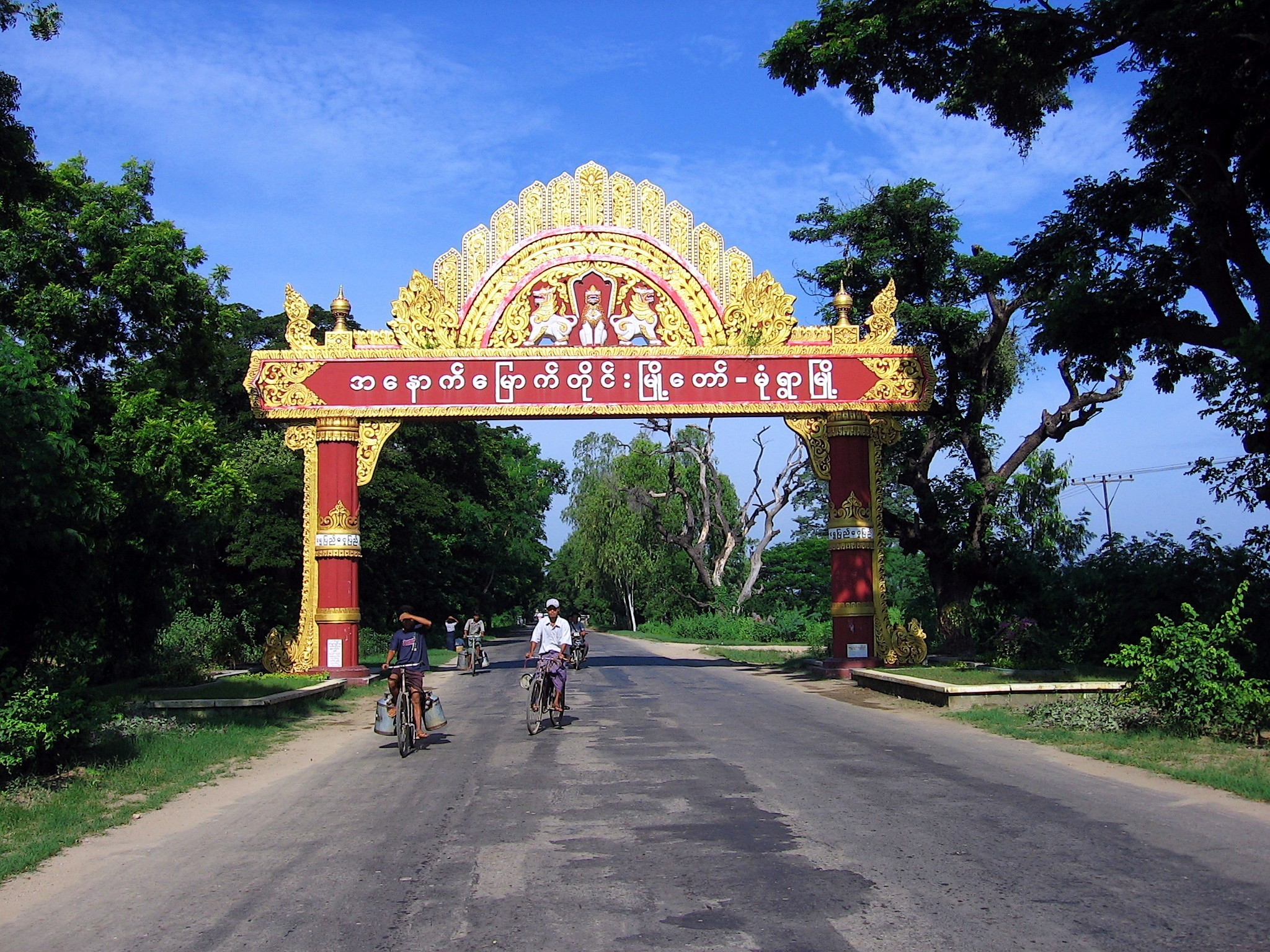 Monywa, Myanmar.